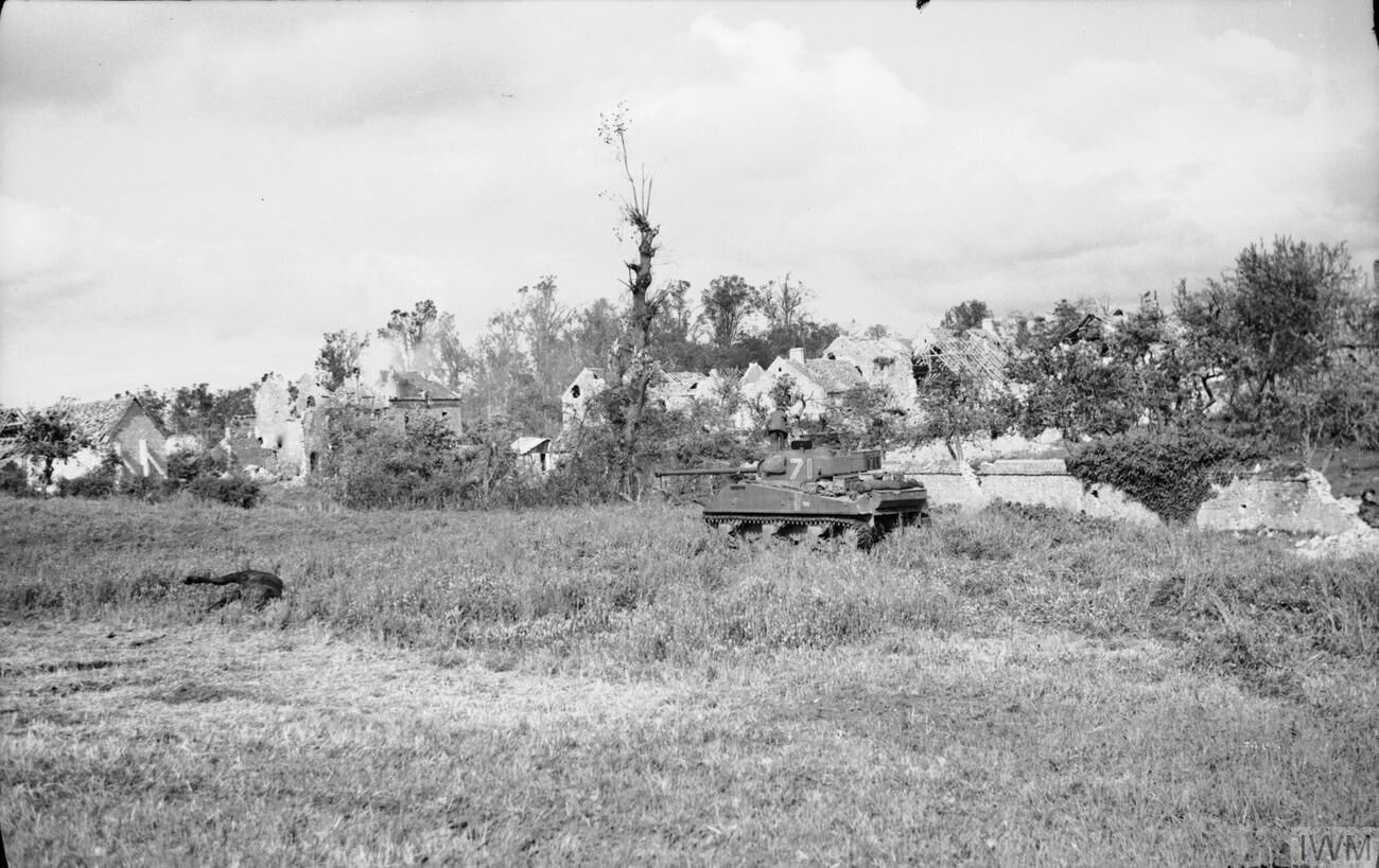 A Sherman Firefly of 'C' Squadron, 13th/18th Royal Hussars near Breville, 13 June 1944.